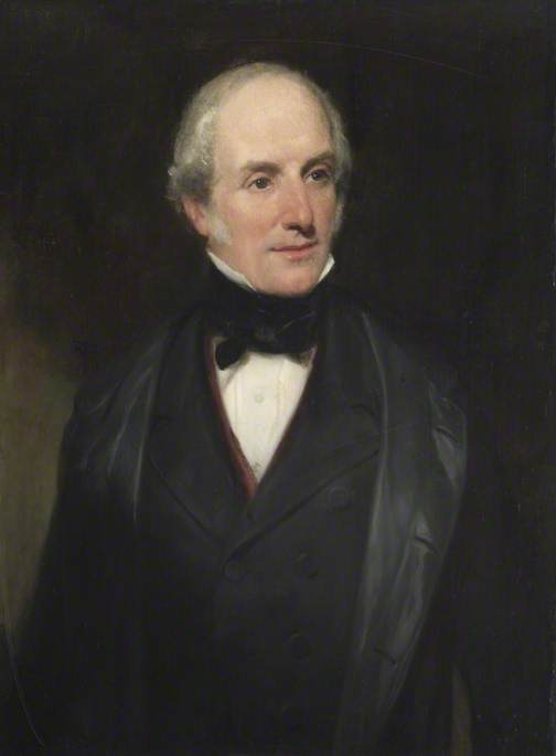 Peter Mere Latham (1789–1875), painted by Henry William Pickersgill (1782 – 1875). Date Painted: c.1850, Oil on canvas, 75 x 62 cm (Art UK